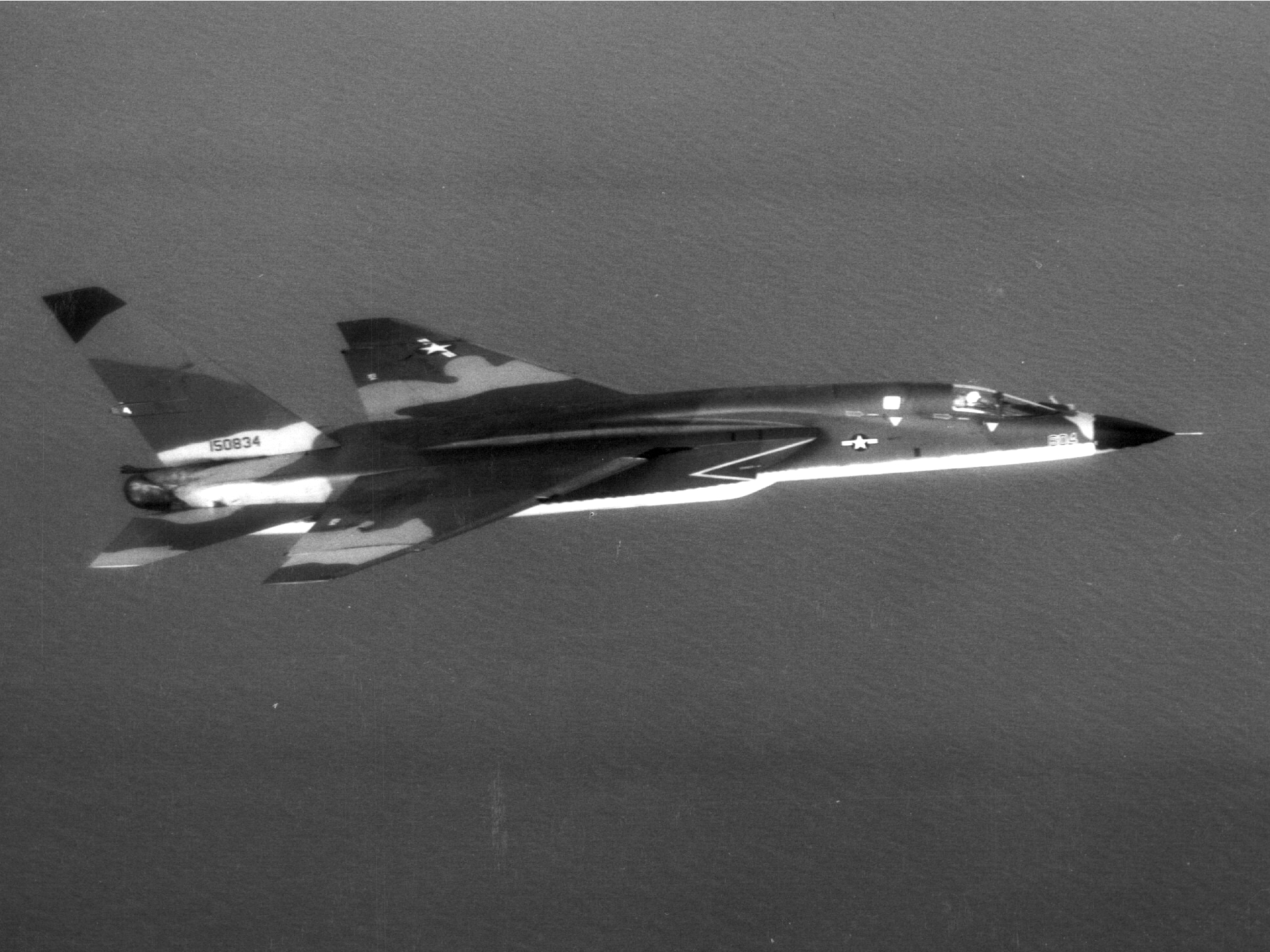 A U.S. Navy North American RA-5C Vigilante aircraft (BuNo 150834) of Heavy Reconnaissance Squadron RVAH-13 Bats in flight over the Gulf of Tonkin. RVAH-13 was assigned to Carrier Air Wing 11 (CVW-11) aboard the aircraft carrier USS Kitty Hawk (CVA-63) for a deployment to Vietnam from 19 October 1965 to 13 June 1966. The U.S. Navy experimented with aircraft camouflage and painted half of the aircraft of CVW-11 with dark green colours to blend in with the Vietnamese jungle. The results proved inconclusive for the U.S. Navy, whereas the U.S. Air Force concluded that the camouflage was effective. U.S. Navy planes would not be camouflaged until the 1980s. 150834 was one of three replacement aircraft for RVAH-13 on this deployment, as the squadron had lost three of its six aircraft.